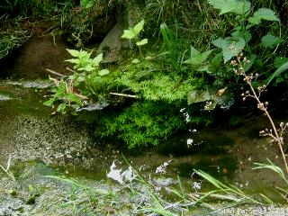 Callitriche cophocarpa